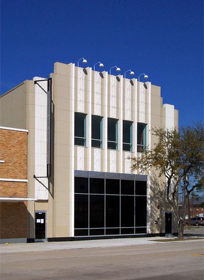 Lawndale Art Center, 4912 Main Street, Houston TX 77002